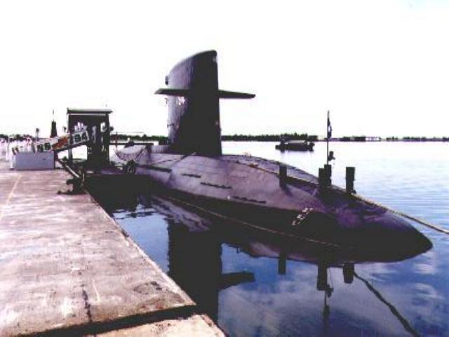 ROC Navy Hai Lung class submarine SS-794. Author: me. Source: took picture myself.